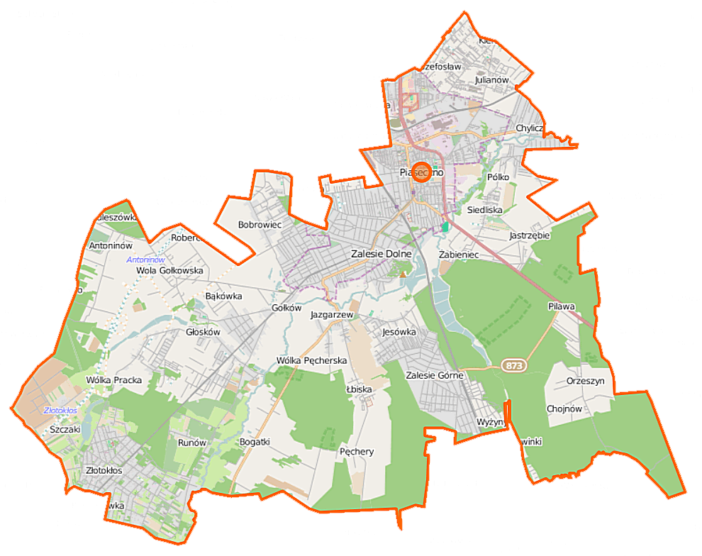 Map of Gmina Piaseczno, Poland This map of Piaseczno (gmina) was created from OpenStreetMap project data, collected by the community. This map may be incomplete, and may contain errors. Don't rely solely on it for navigation. Border coordinates52.115820.8634←↕→21.136051.9830